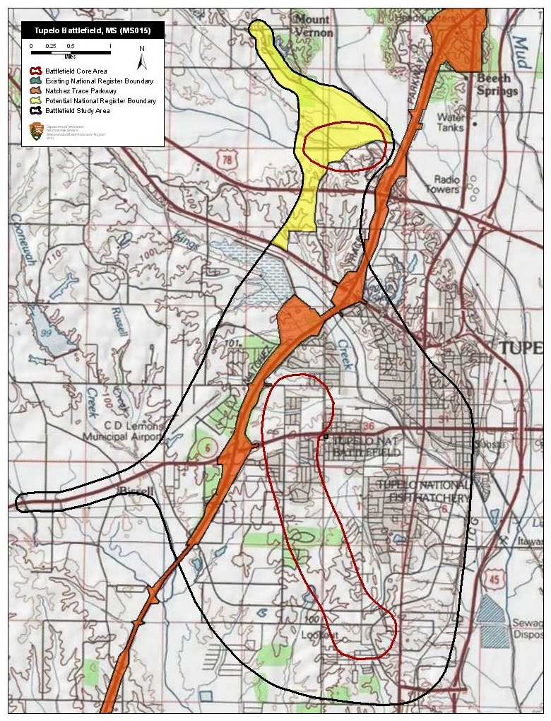 Map of battlefield core and study areas. The ABPP enlarged the Study Area boundary to include locations of fighting to the north and troop movements made in preparation for engagement to the north, west, and south. The revised boundary also includes the western approach route used by Confederates responding to news of Federal activity in Tupelo, as well as the route taken by withdrawing Federal forces, which connects the prime Core Area in the south with the secondary, northern Core Area. The ABPP redrew the southern Core Area to include only locations of fighting confirmed by primary source documentation, and added a new Core Area in the north where fighting occurred at Old Town Creek.